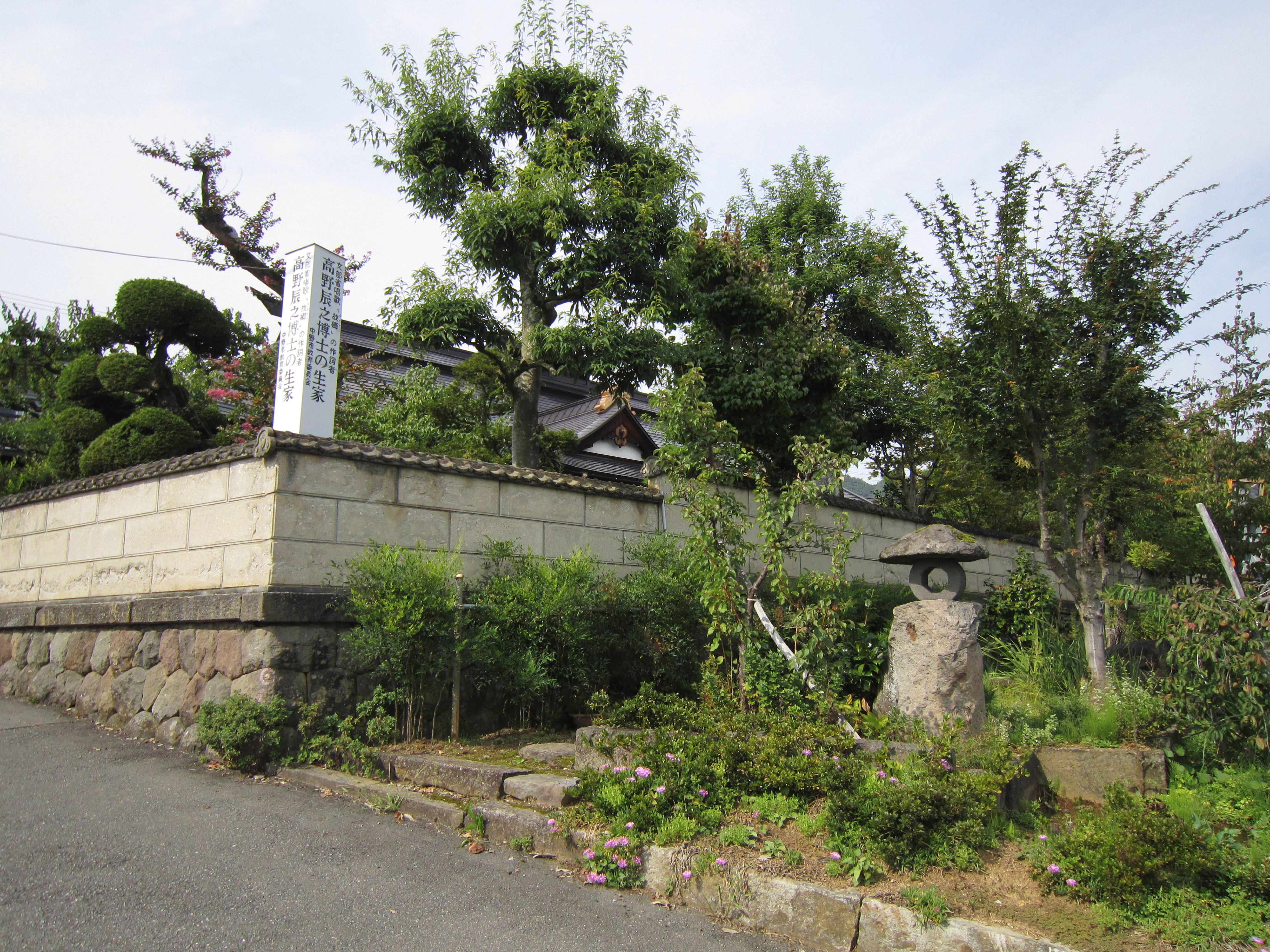 Takano Tatsuyuki birthplace.